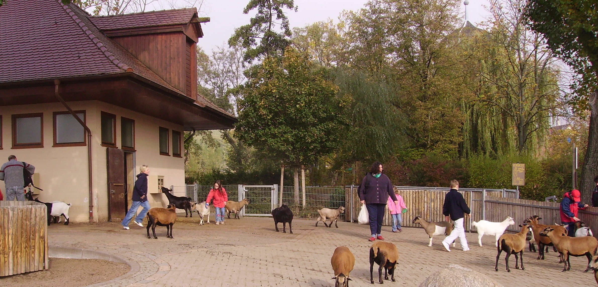 leisure park Tripsdrill near Cleebronn in southern Germany